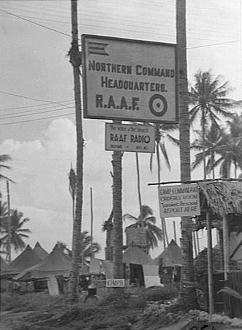 AWM caption: Madang, New Guinea. Sign on the entrance of Northeirn Command HQ RAAF showing the whereabouts of RAAF radio station "The Voice of the Islands".